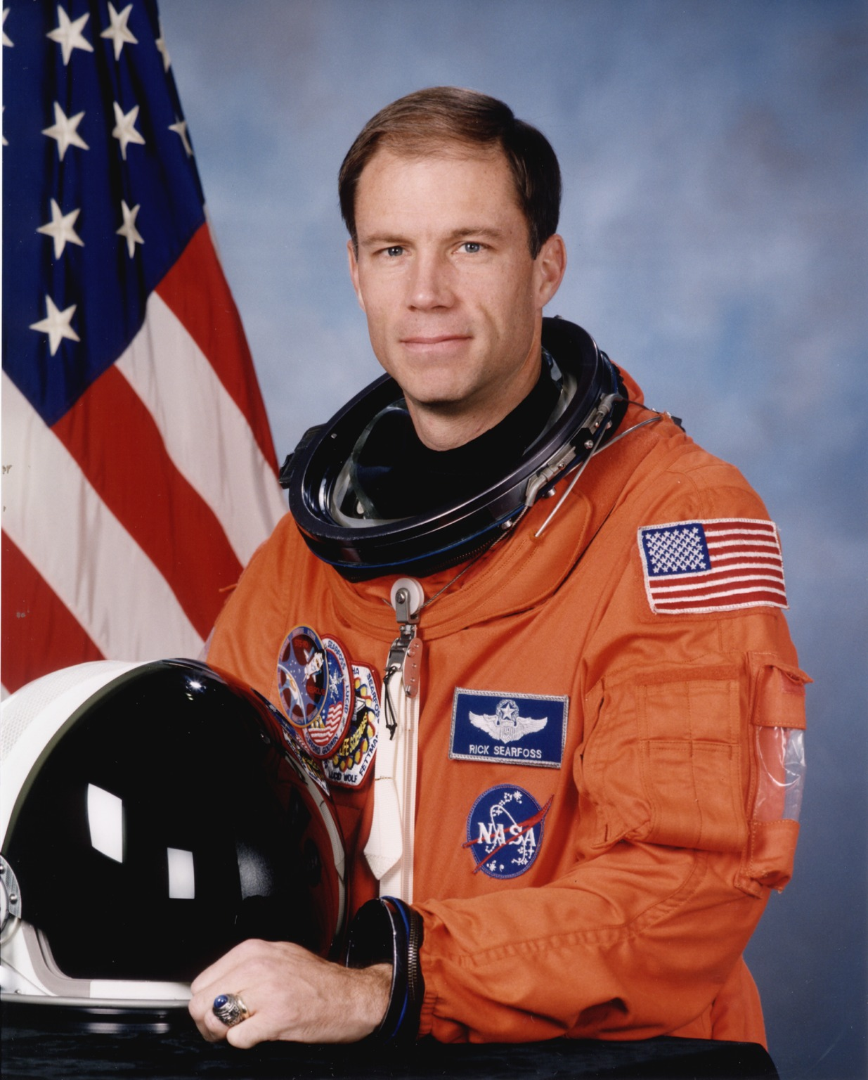 portrait astronaut Richard Searfoss